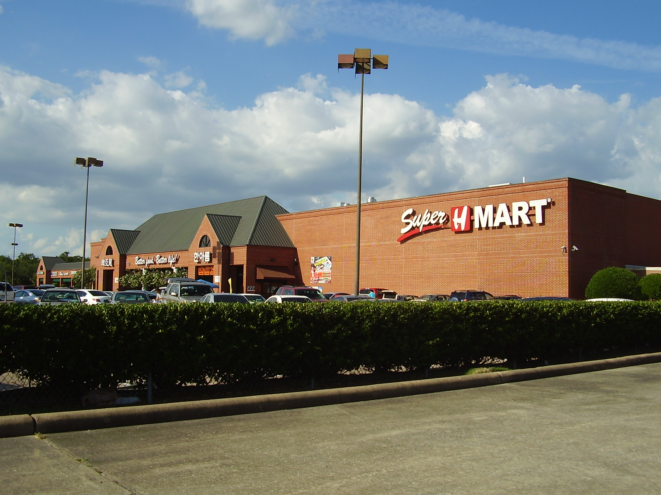 Super H Mart, Spring Branch, Houston, TX - 1302 Blalock Road, Houston, Texas